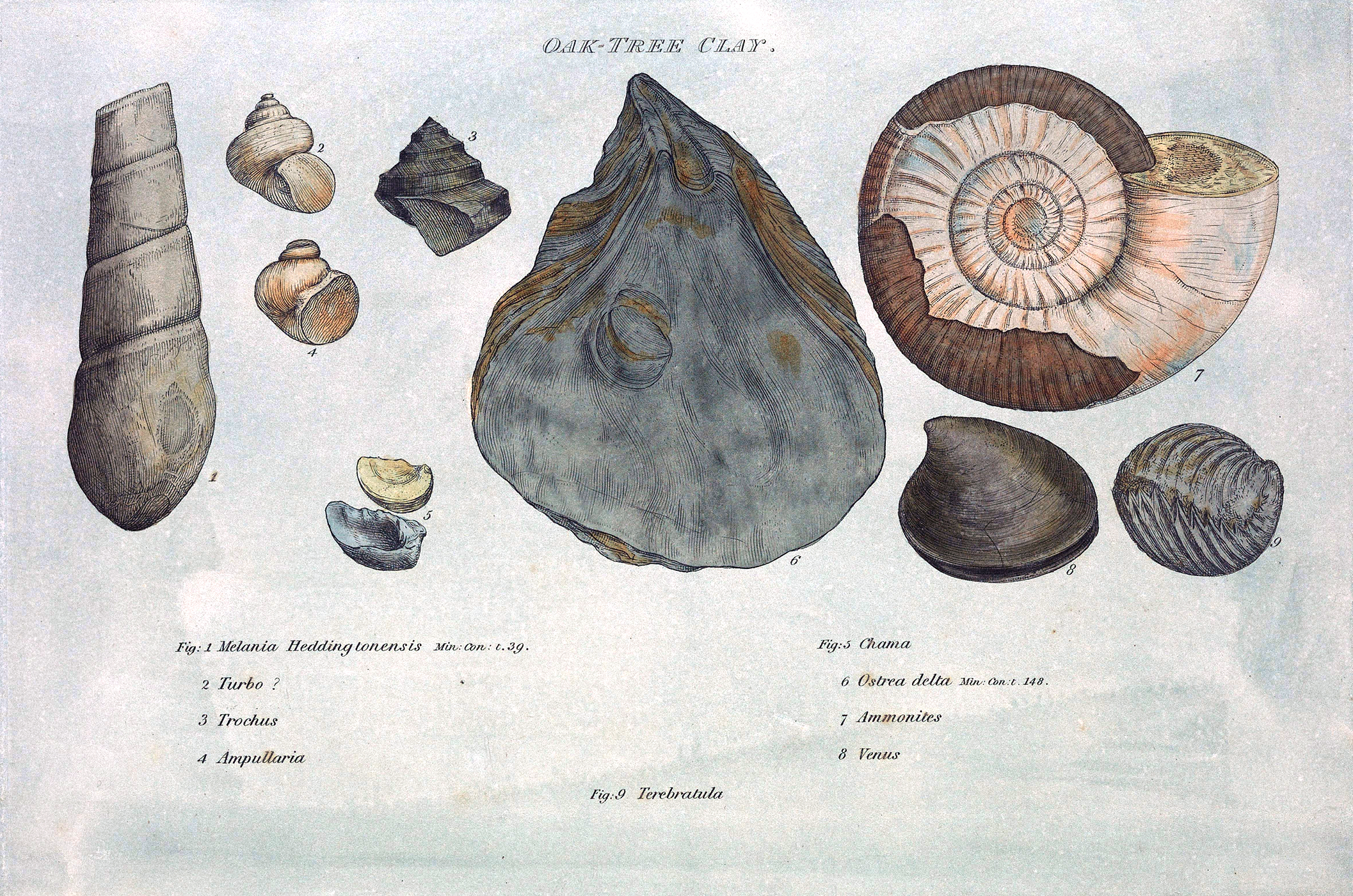 Historical plate showing fossils that characterize the “Oak-Tree Clay” (corresponding to the Kimmeridge Clay of modern nomenclature, Kimmeridgian, middle Upper Jurassic) of England. This plate comes from the fundamental biostratigraphical work of the pioneer of modern Geology William Smith. Note that the names of the fossil taxa may have changed since, mainly in a way, that the historical genus concepts subsequently changed over to family or even higher-ranked taxa. For example, the genus “Ammonites” is not even used anymore.[1] The specimen shown in figure 7 has later been referred to the species Pictonia baylei of the family Aulacostephanidae. The genus Ostrea is still in use but its historical concept today corresponds to the family Ostreidae, and many historical species have been assigned to newly erected genera. The oyster shell shown in figure 6 today is referred to as Liostrea delta or Deltoideum delta. The „Terebratula“ in figure 9 is probably the rhynchonellid brachiopod which today is referred to as Torquirhynchia inconstans (originally formally named „Terebratula inconstans“ by Sowerby, 1821).